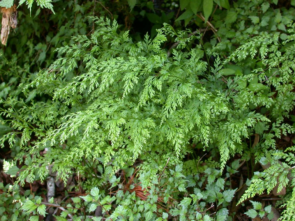 Onychium japonicum (Japanese name Tatisinobu), Tanabe city, Wakayama prefecture, Japan